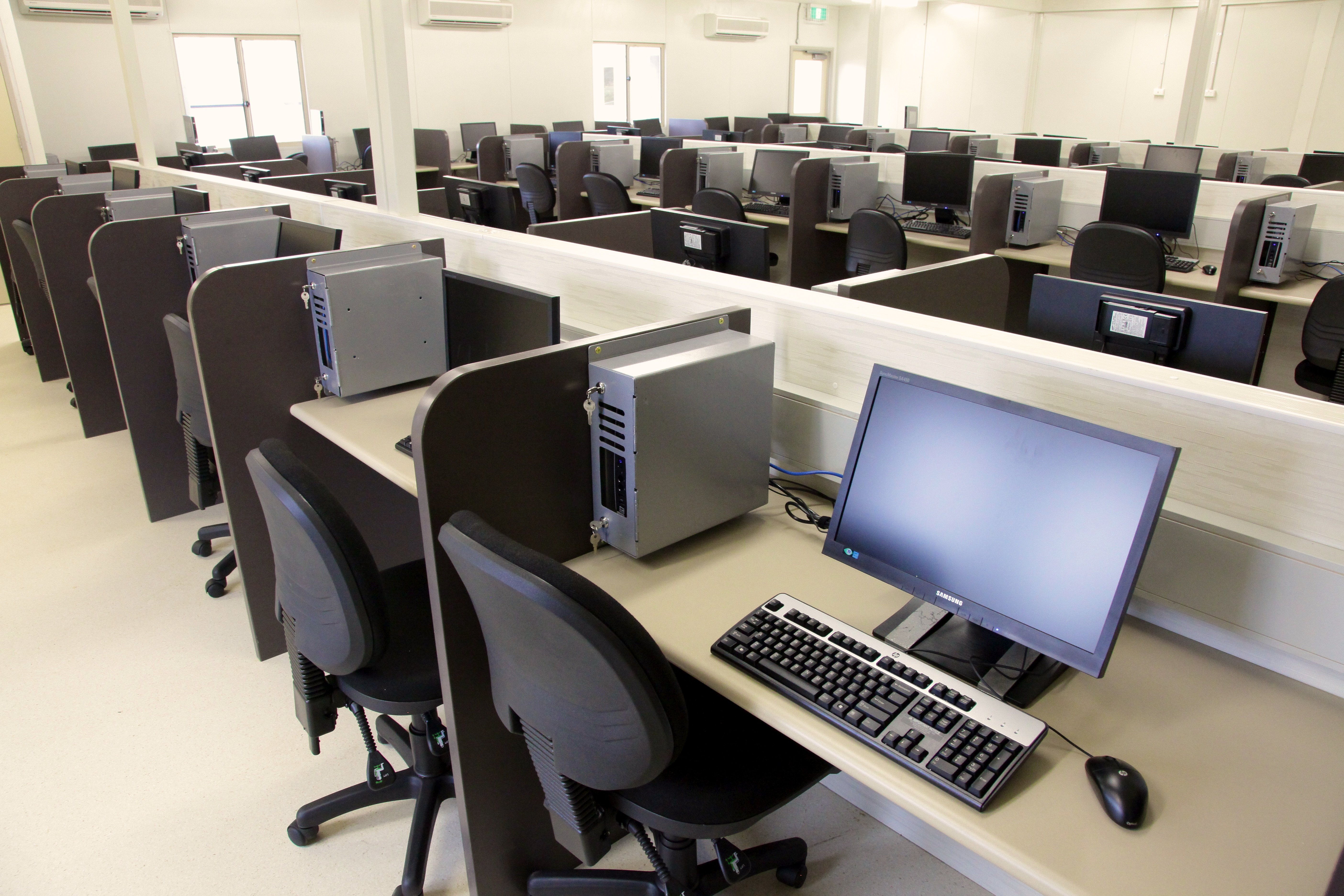 Yongah Hill Immigration Detention Centre